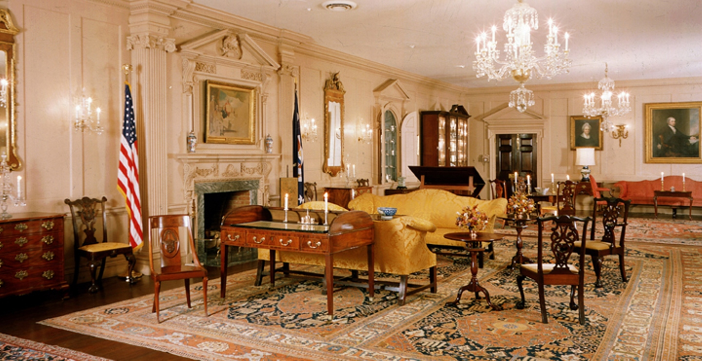 John Quincy Adams State Drawing Room, Diplomatic Reception Rooms, Harry S. Truman Building, U.S. Department of State, Washington, D.C.